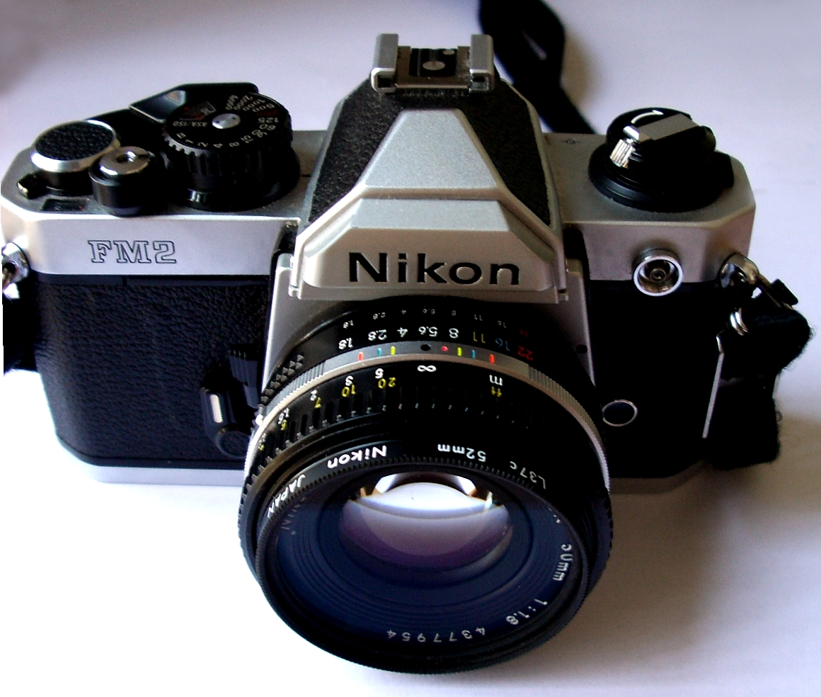 A Nikon FM2 SLR camera with its original lens.